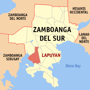 Map of Zamboanga del Sur showing the location of Lapuyan